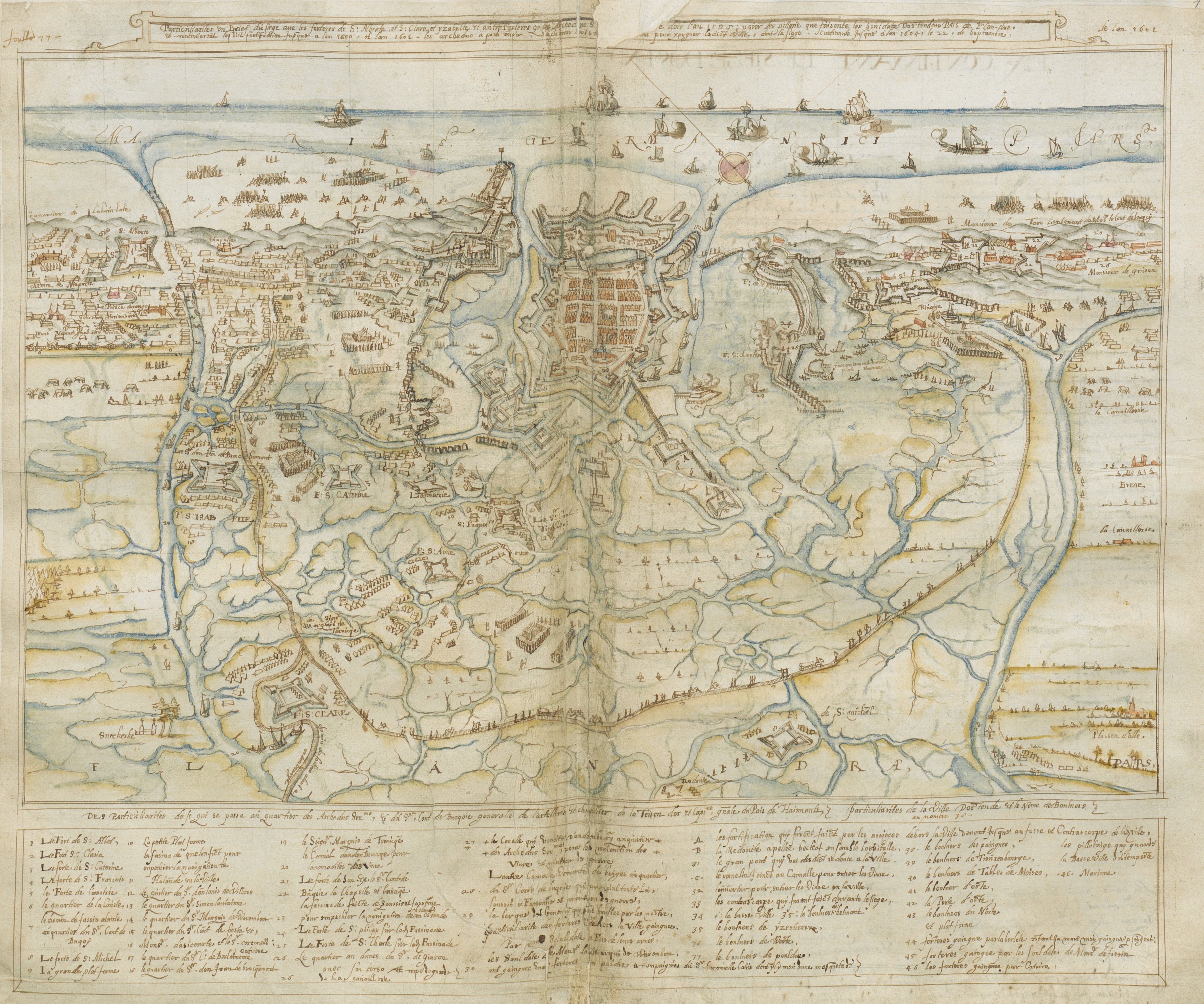 Plan of Ostend and the surrounding during the Siege of Ostend (1602) by Le Poivre, Pierre (Petro).